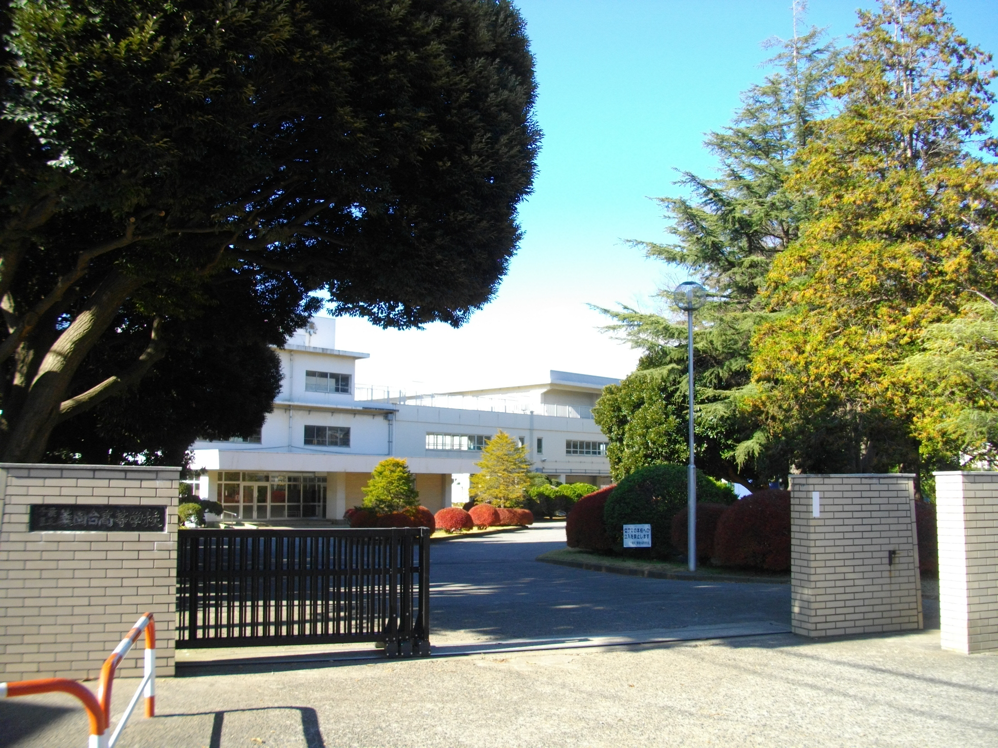 Yakuendai High School